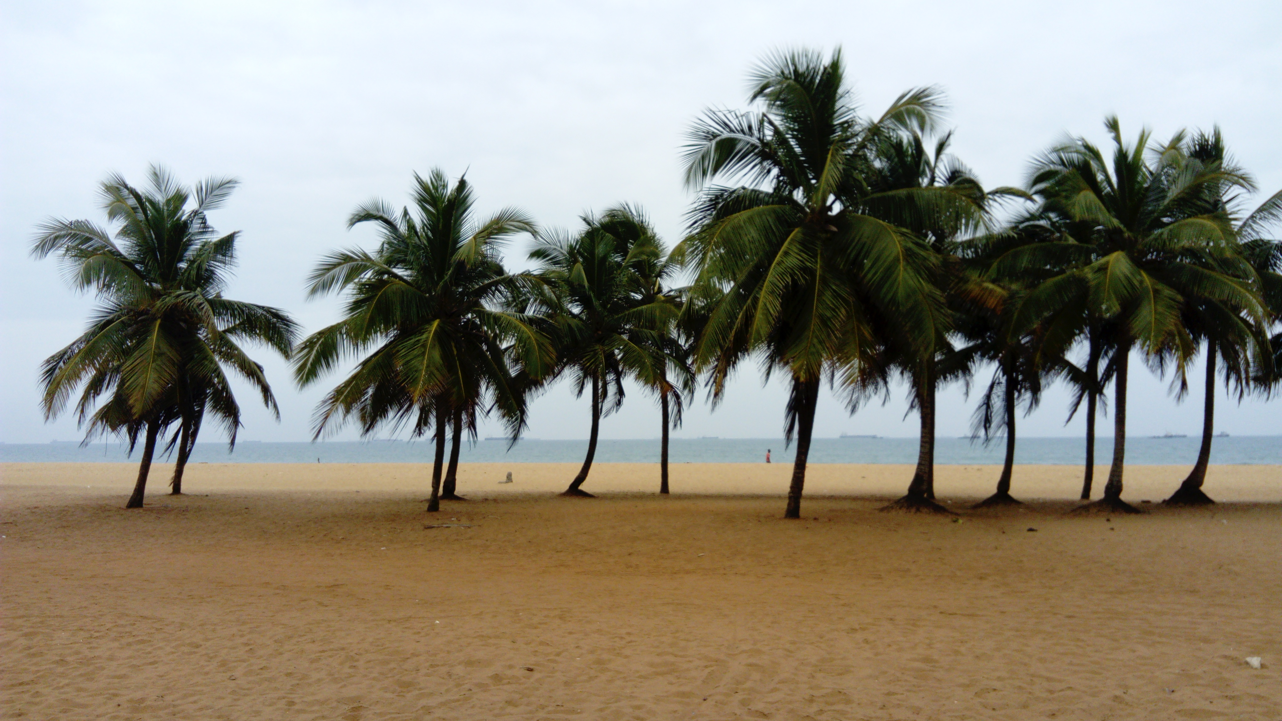 A beach from Lomé in Togo, in Togo (West Africa), with sand and palm trees, in August 2016.